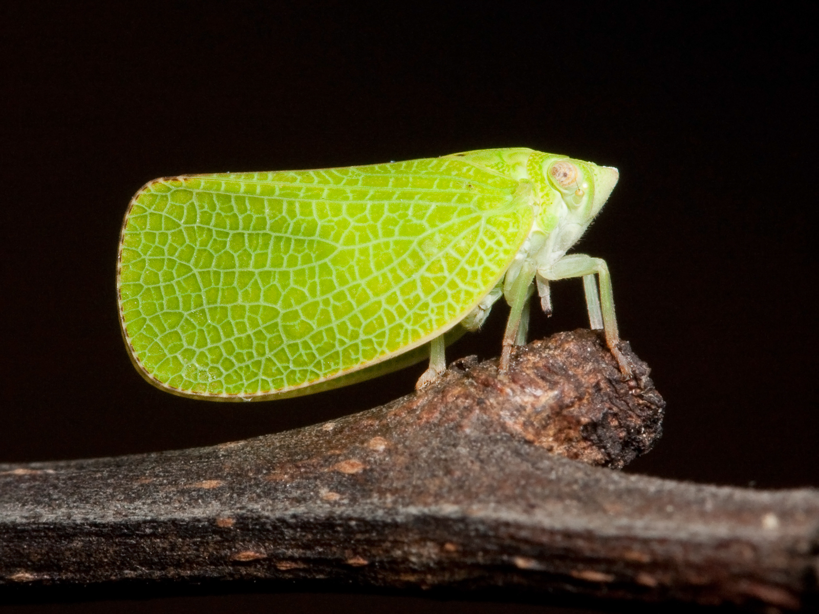 Acanalonia conica planthopper found in Shelby Park in Nashville, Tennessee